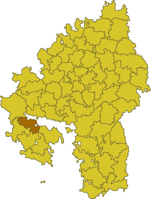 Map of administrative subdivisions (Oberämter) in Württemberg as of 1835, Oberamt Sulz marked in brown